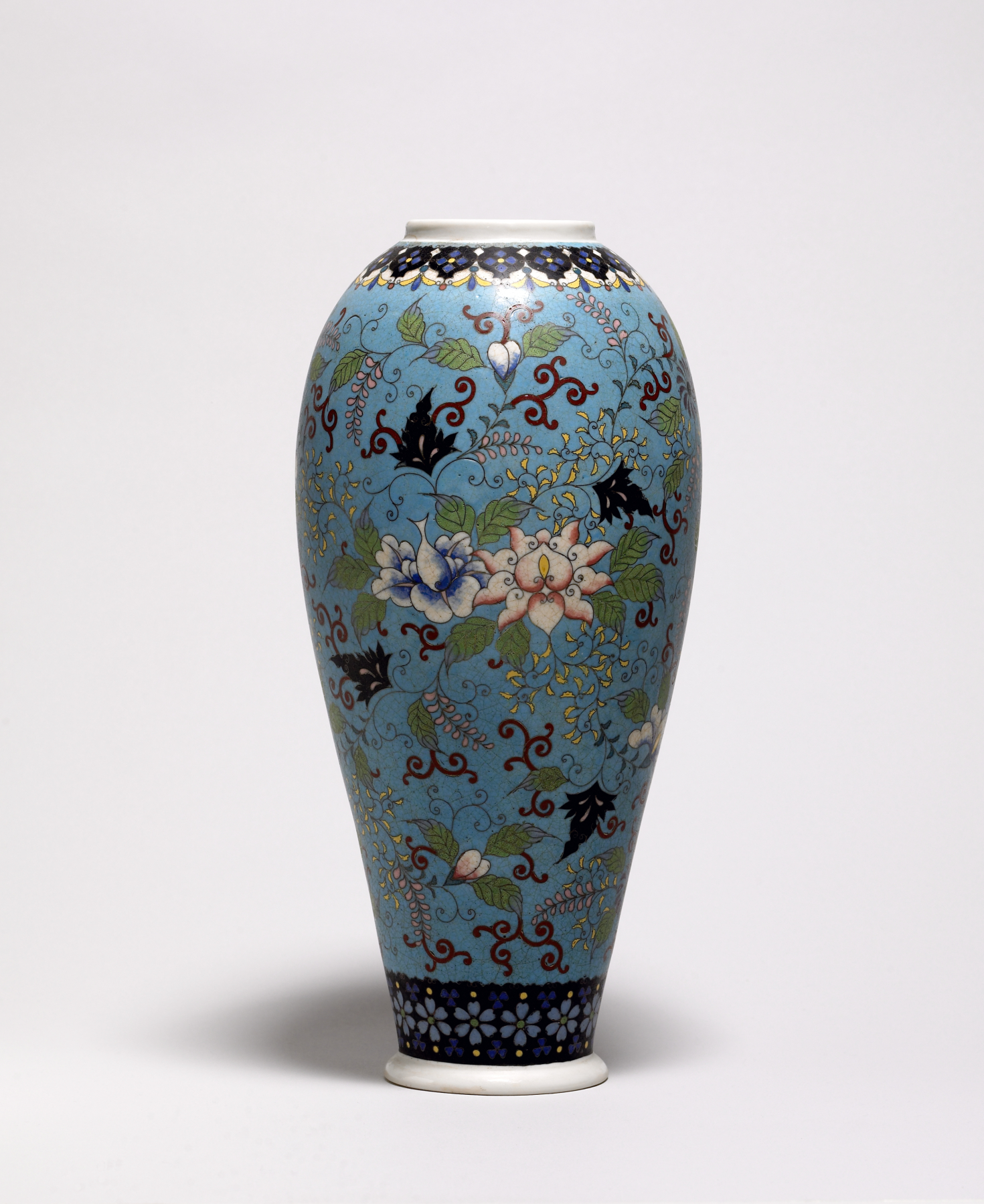 This vase is decorated with vines and tendrils depicted in colored enamels separated by fine wires. The enamels have been fused to the porcelain body.